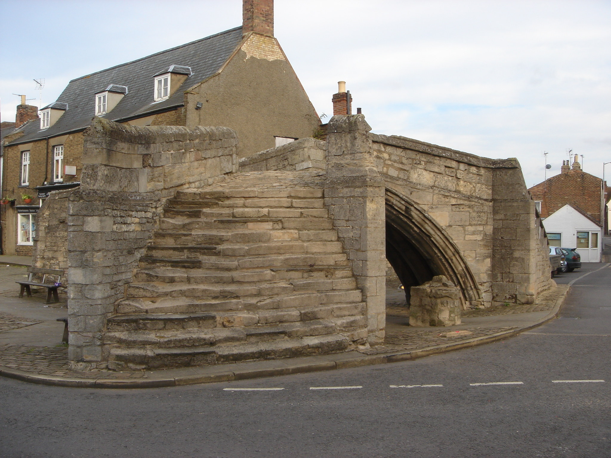 Trinity Bridge in Crowland Town, Lincolnshire. The triangular Trinity Bridge stands on dry land. Built between 1360 and 1390.